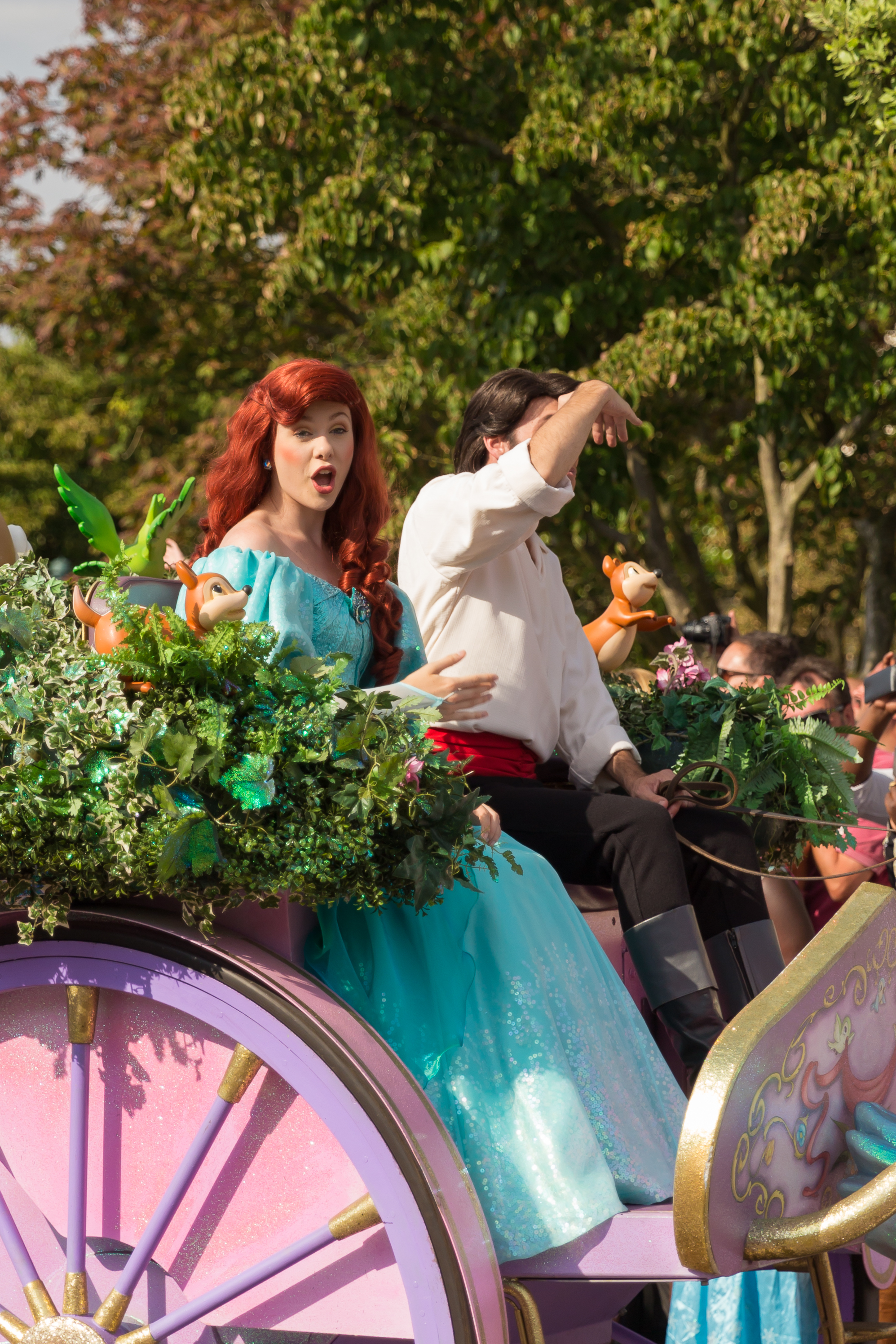 Ariel and her Prince in The Little Mermaid in the Disney Magic On Parade in Disneyland Paris.